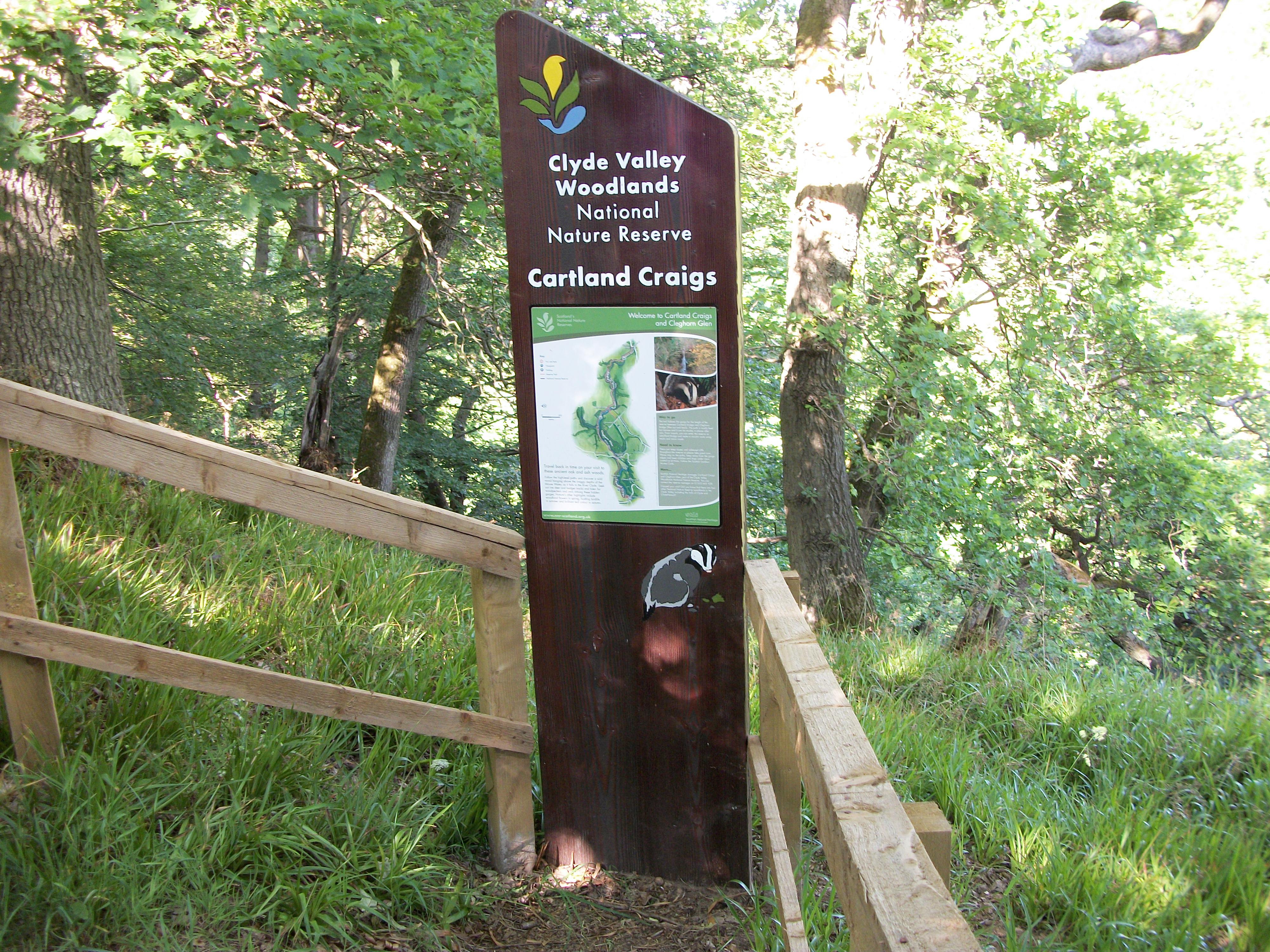 The sign at the Cartland Bridge entrance to Cartland Craigs. Alternative ref: Cartland Craigs 20 June 2010 (6)